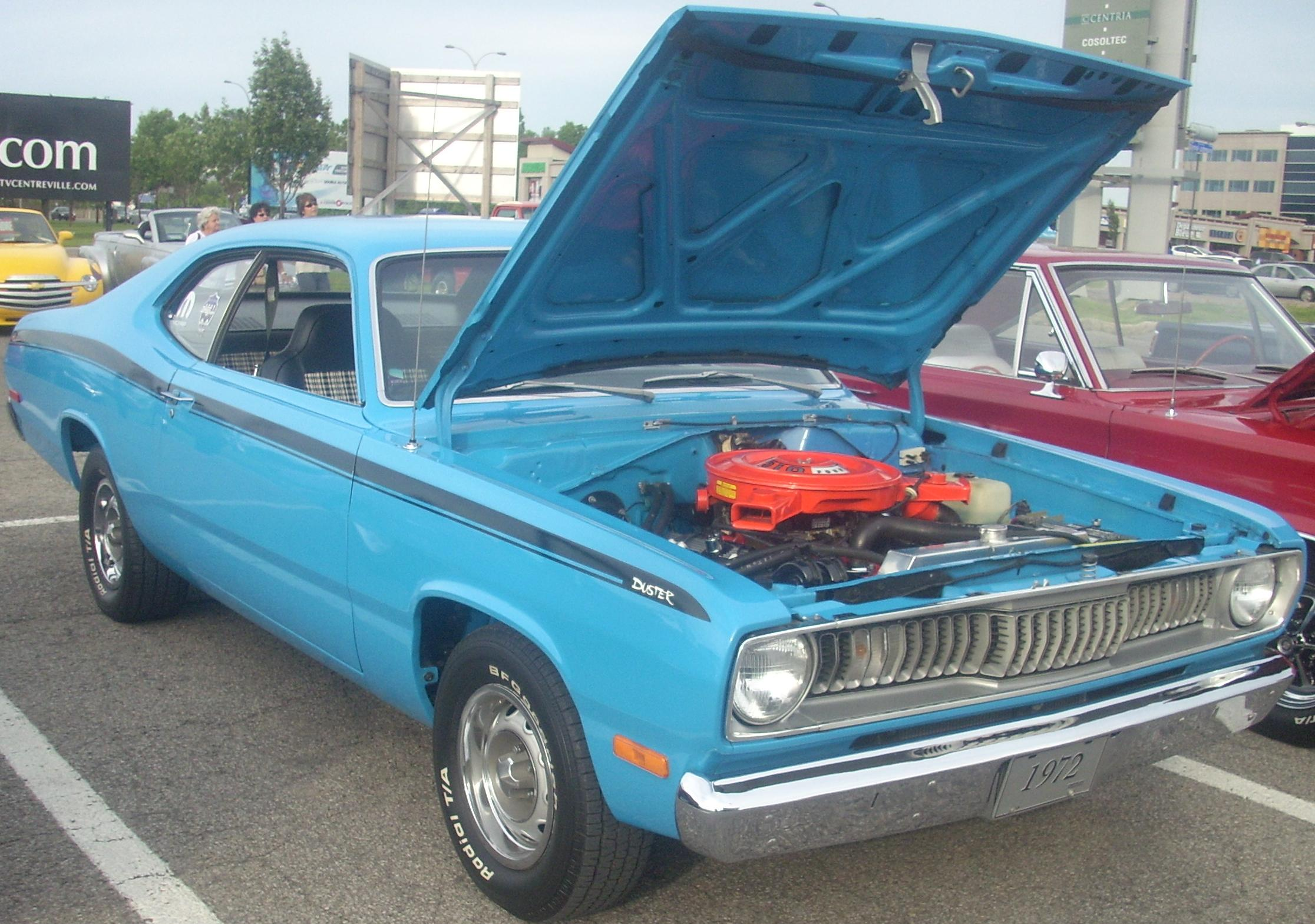 1972 Plymouth Duster photographed in Laval, Quebec, Canada at Les chauds vendredis 2010.